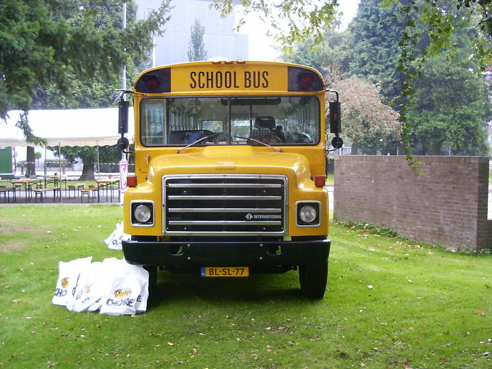 Front of school bus photographed in Doorwerth